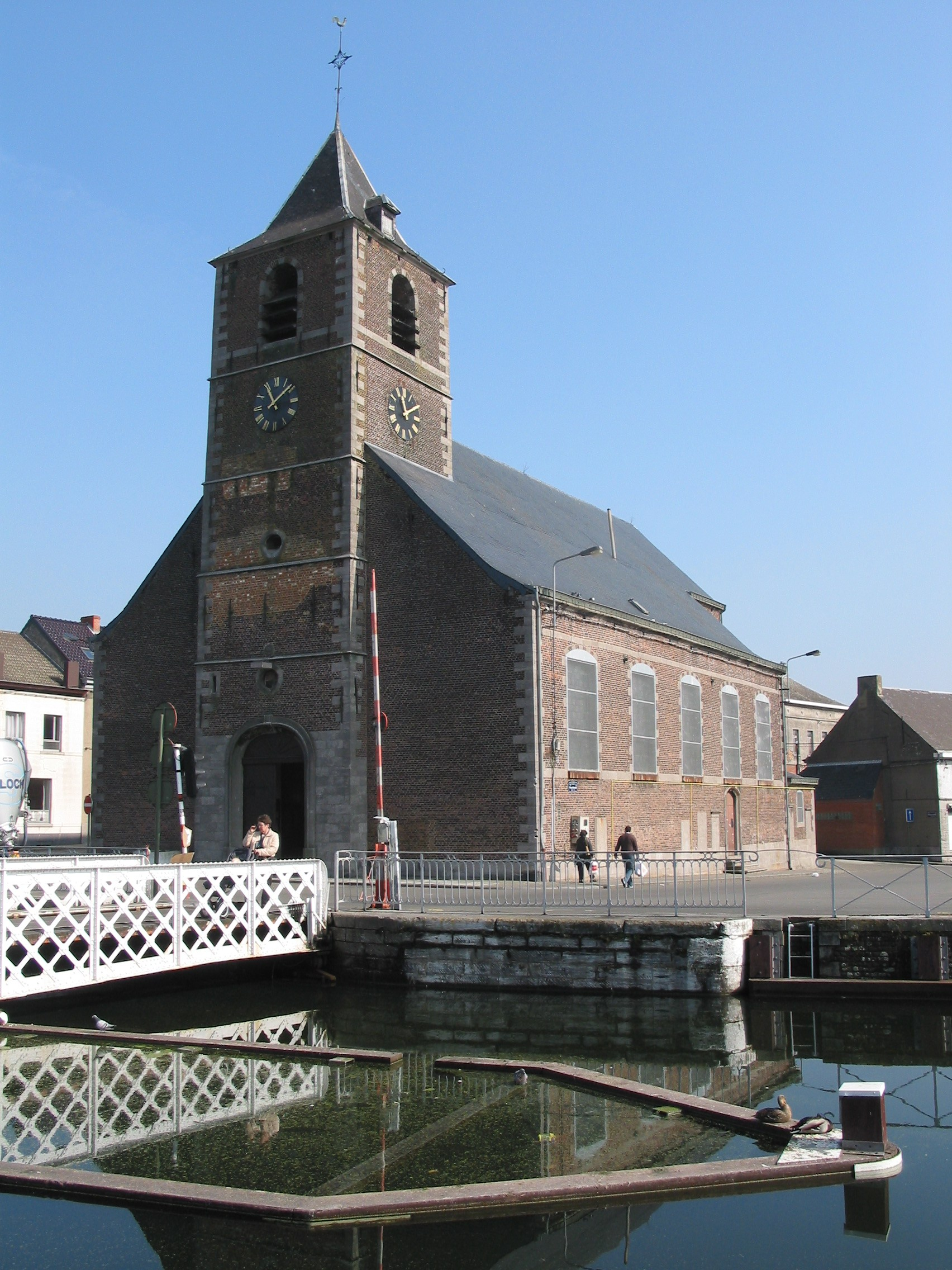 Houdeng-Aimeries (Belgium), the St. John the Baptist church (1779).